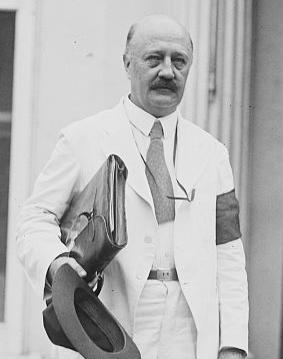 Gov. J.J. Morrow of Canal Zone National Photo Company Collection, Library of Congress